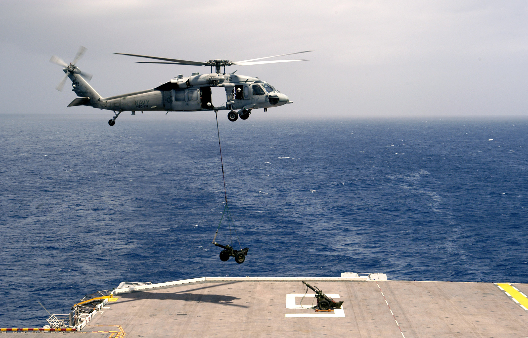 Caribbean Sea (June 7, 2006) - An MH-60S Seahawk assigned to the Dragon Whales of Helicopter Sea Combat Squadron Two Eight (HSC-28), lowers a mortar to the deck of amphibious assault ship USS Bataan (LHD 5), off the coast of Curacao in the Netherlands Antillies. HSC-28 is embarked on the amphibious assault ship USS Bataan (LHD 5), while participating in the Dutch-led exercise Joint Caribe Lion 2006 off the coast of Curacao in the Netherlands Antillies. Bataan is participating in the exercise with military forces from France, Italy, Spain, United Kingdom, and Venezuela. U.S. Navy photo by Photographer's Mate 1st Class Ken J. Riley (RELEASED)